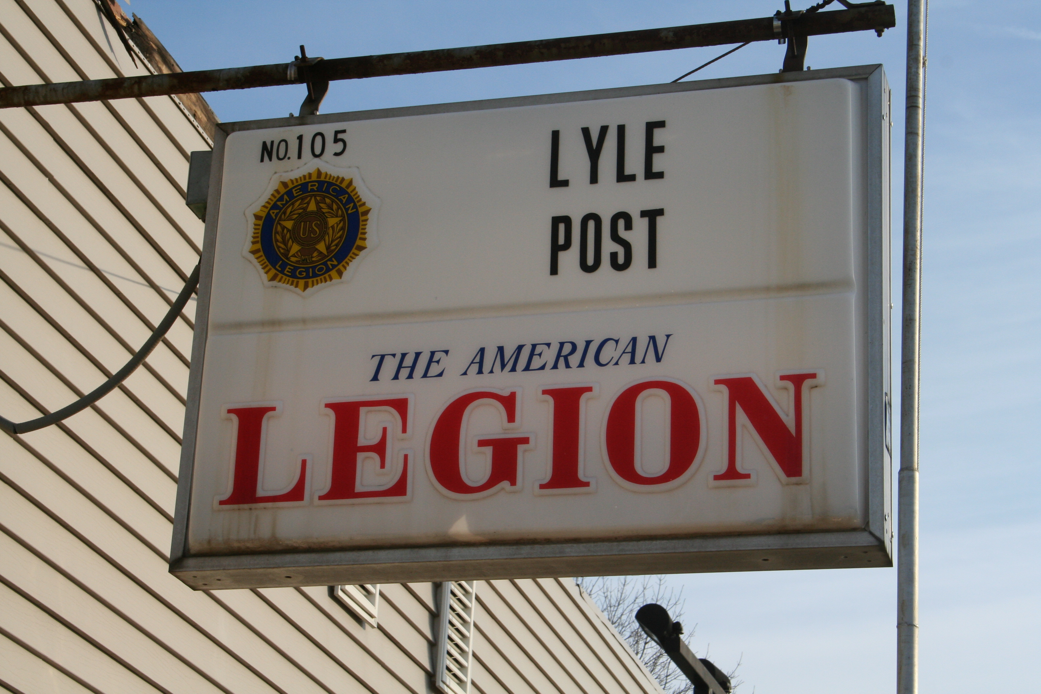 American Legion Hall sign in Lyle, Minnesota